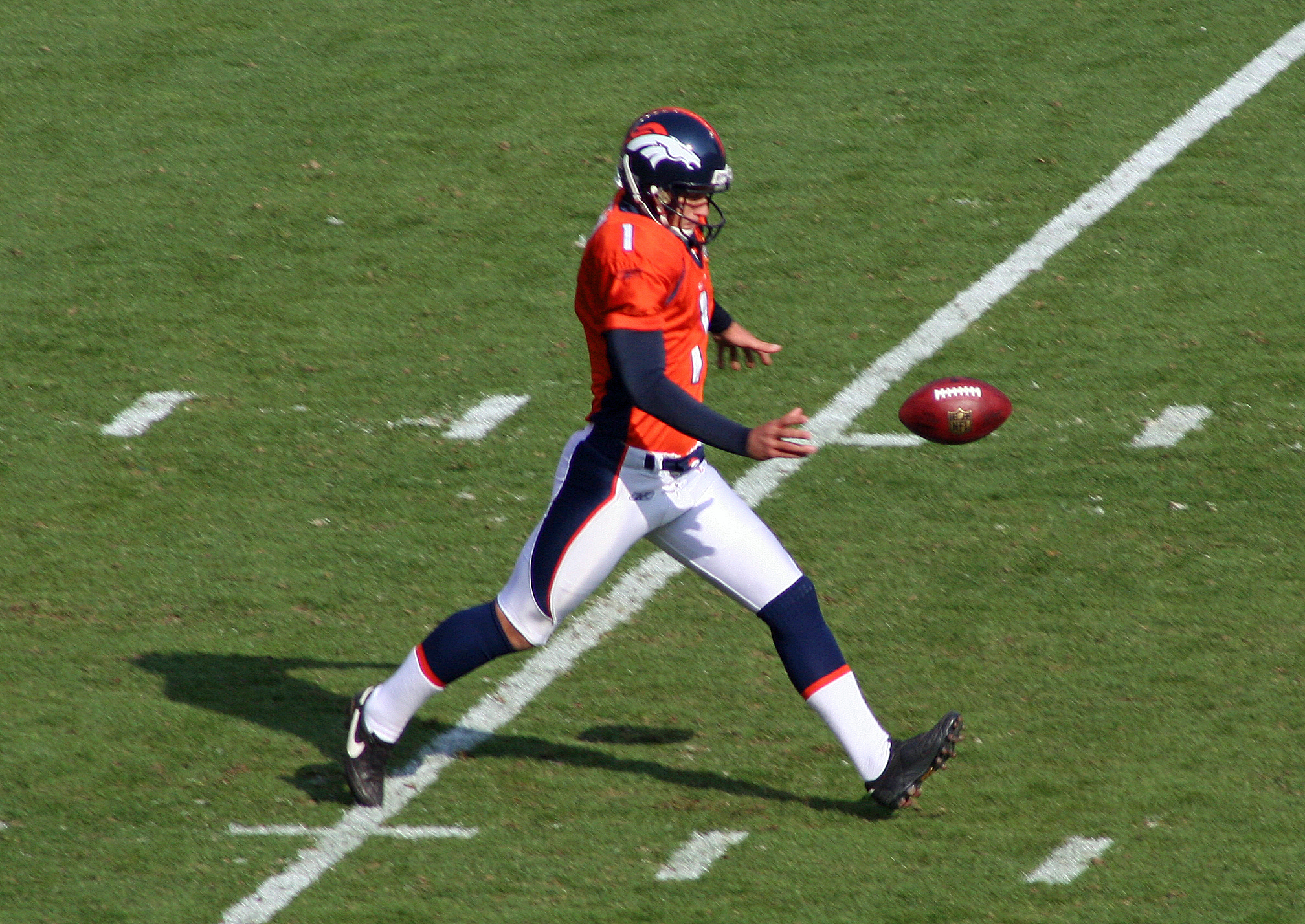 Brett Kern, a punter with the Denver Broncos American Football team.